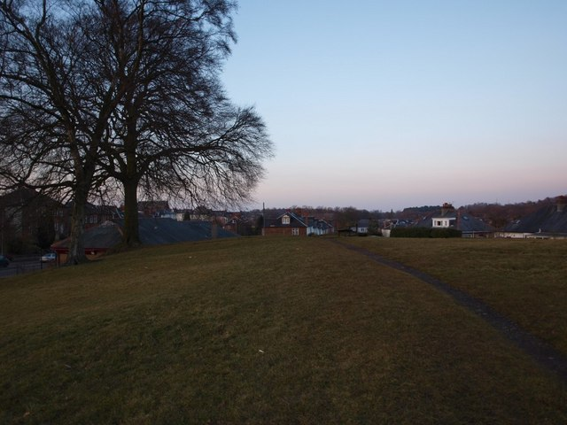 Trees and hillock This little green hillock next to Clarkston Road has a pleasant outlook north and is popular with dog walkers etc.